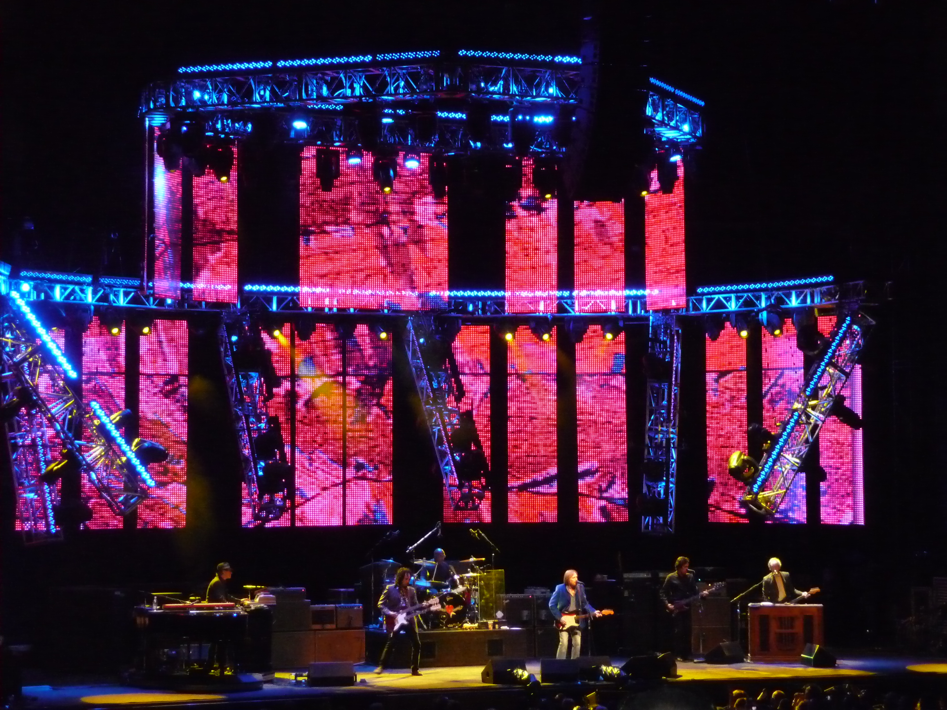 This was a zoomed out shot of Tom Petty & The Heartbreakers.